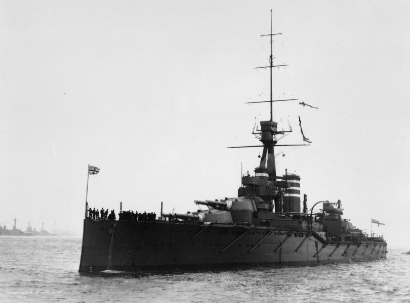 Photograph of British battleship HMS Thunderer, at anchor at Spithead on completion.